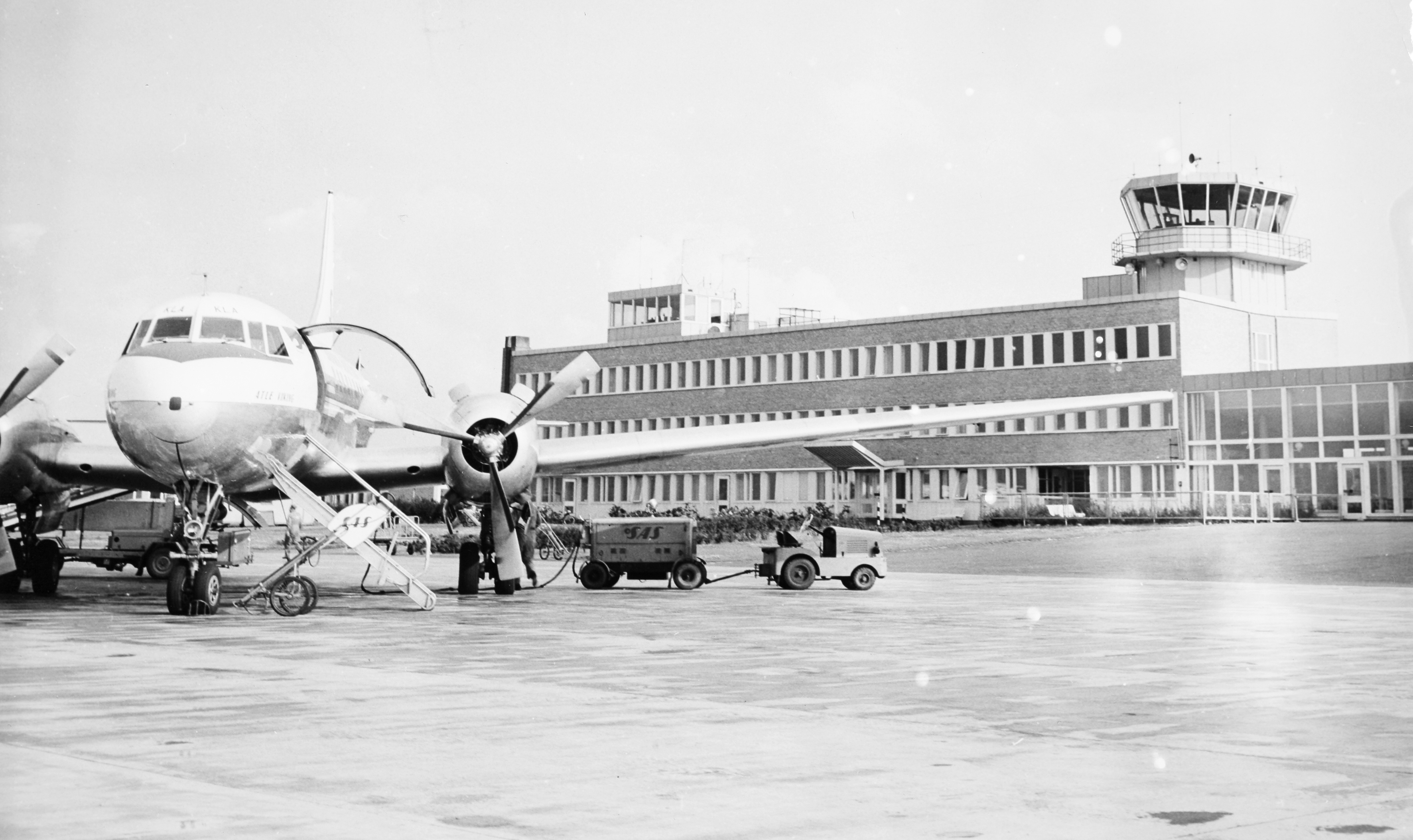 Airport Malmö Bulltofta BUA, SAS Atle Viking is getting refuelled in the front of the airport building, Bulltofta Airport, Malmö